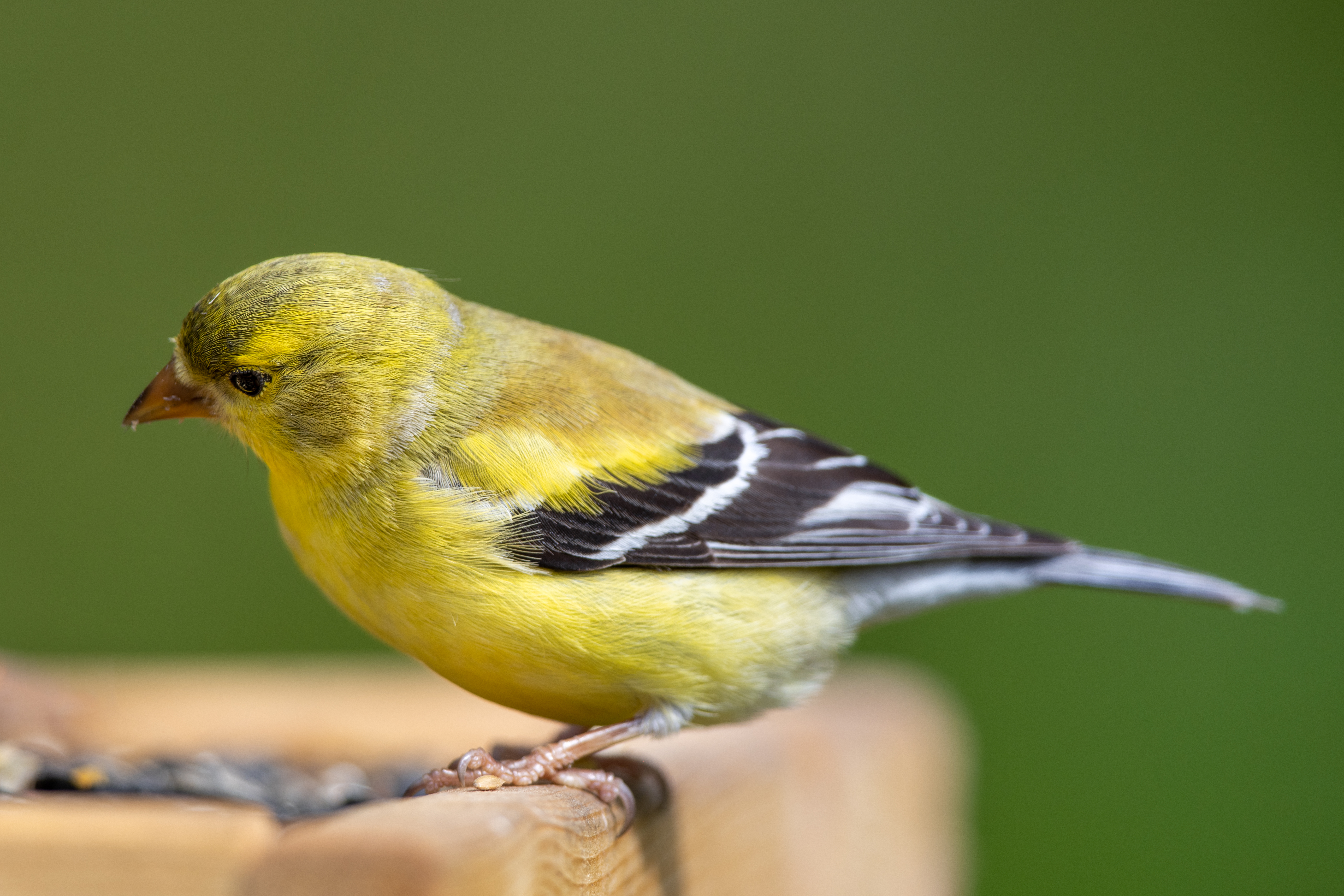 Goldfinch (female), shot in Franklin, TN